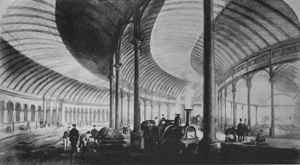 Newcastle railway station in 1850, when it opened